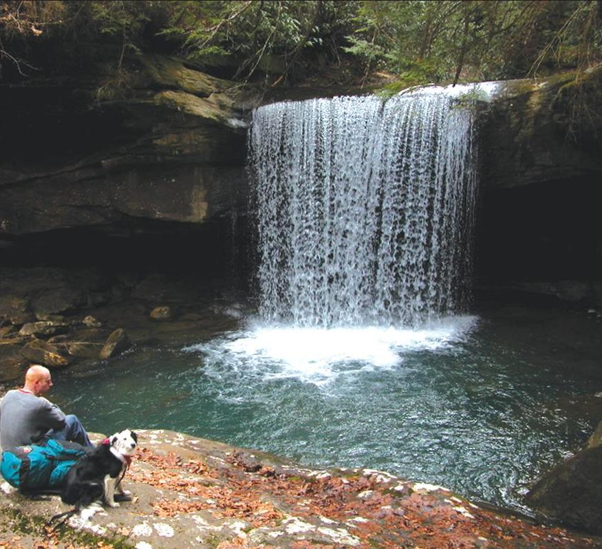 Dog Slaughter Falls Trail brochure from the US Forest Service